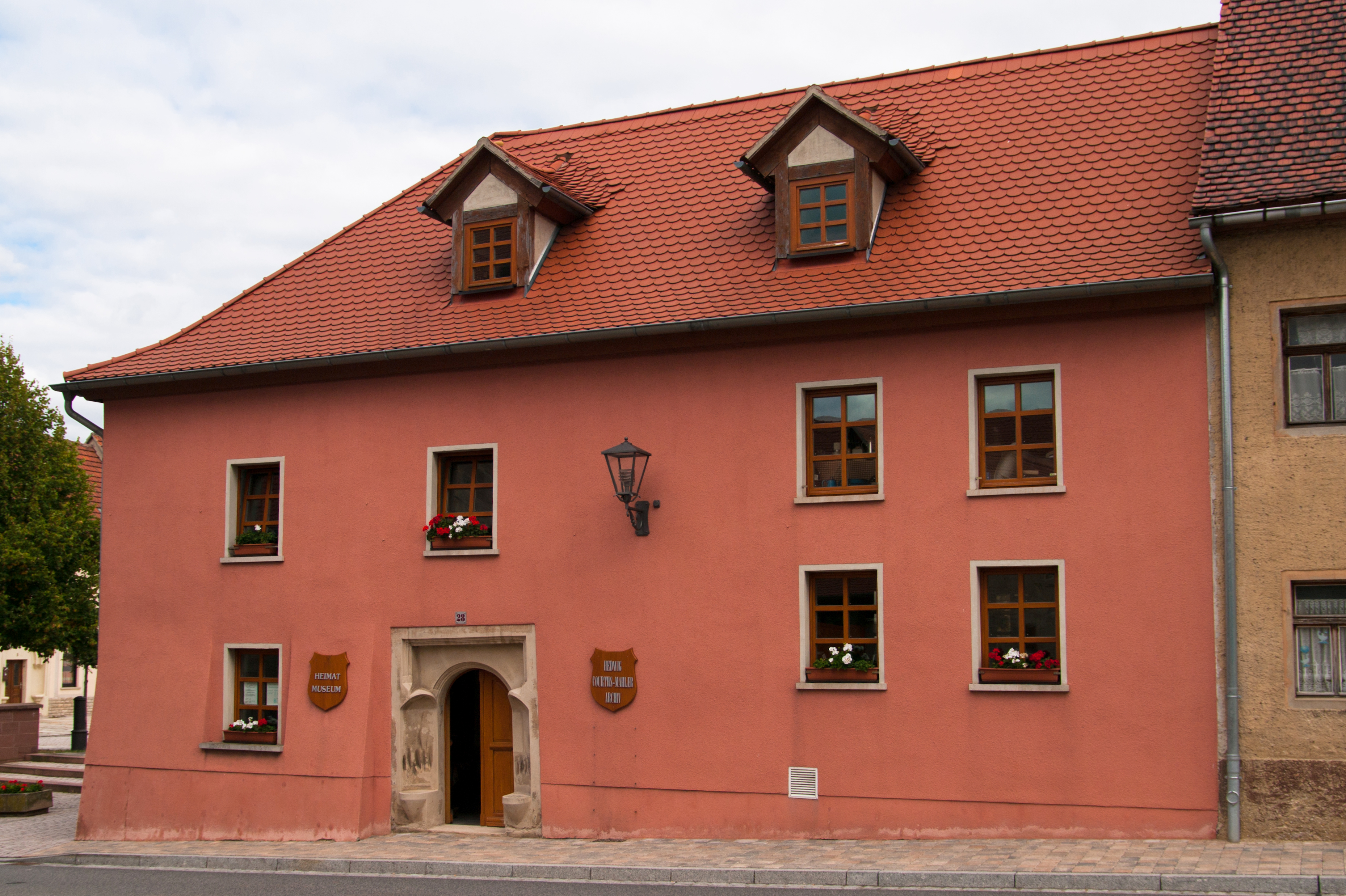 Nebra, Saxony-Anhalt, downtown